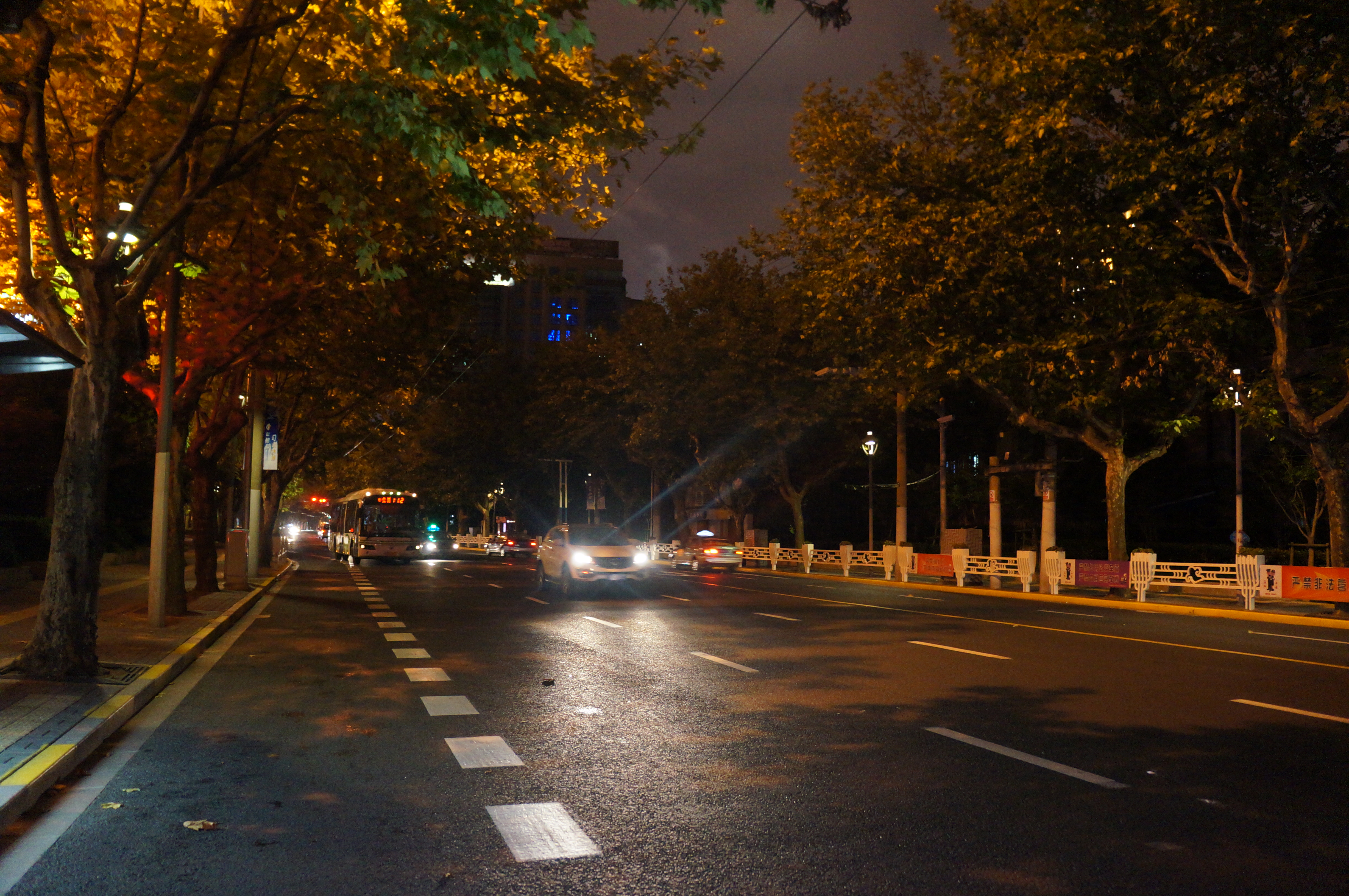 201610 Beijing Road West at Night